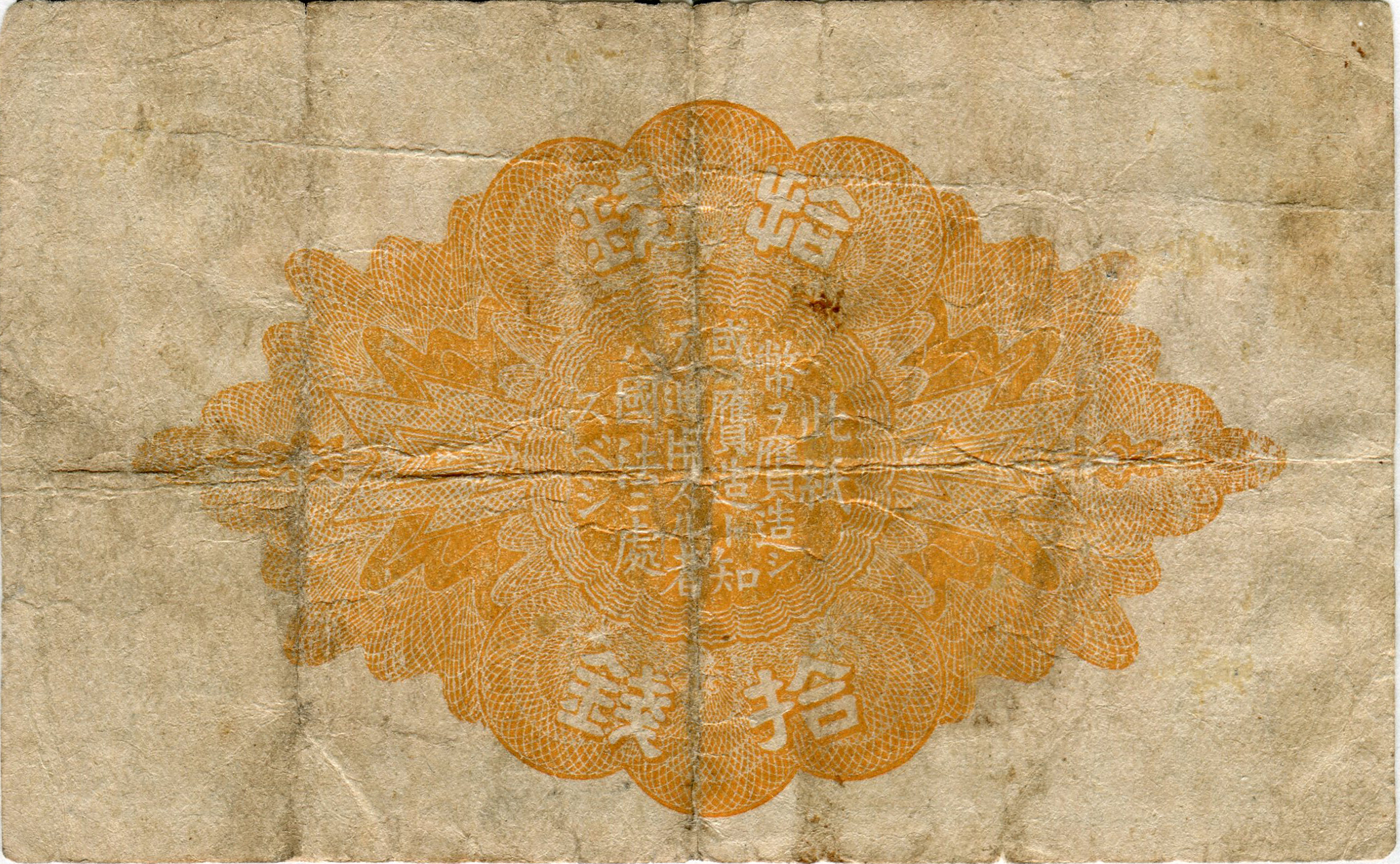 Japanese government small-face-value paper money, "Taishō" 10 Sen (1/10 Yen). First issued in 1917. Issue suspended in 1922. Demonetized in 1948. 54mm x 86mm.